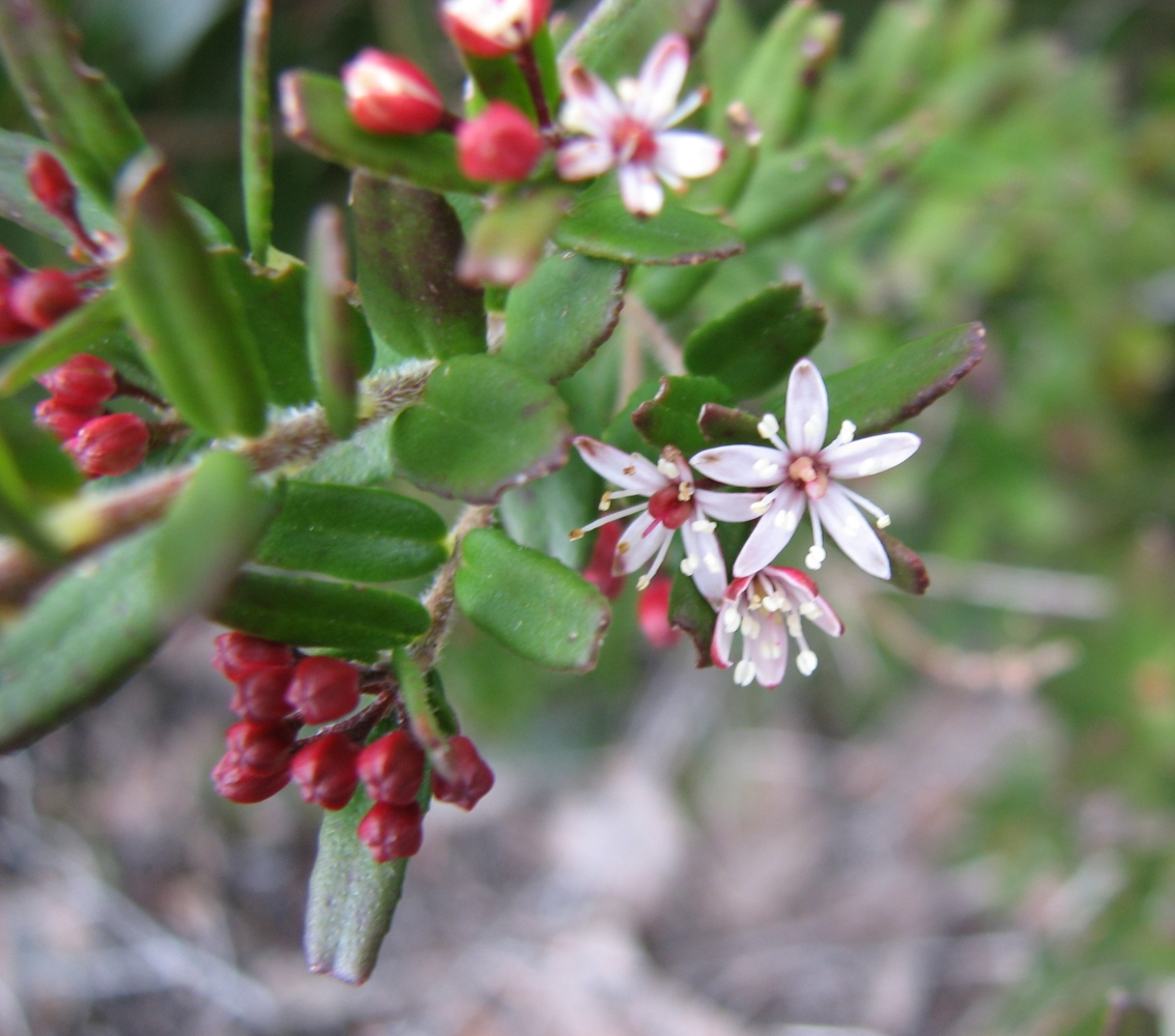 Leionema bilobum, Grampians National Park, Victoria, Australia